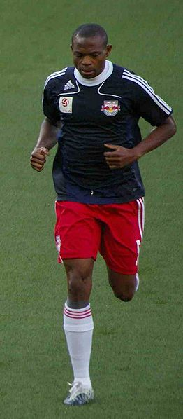 Afolabi,defender Red Bull Salzburg